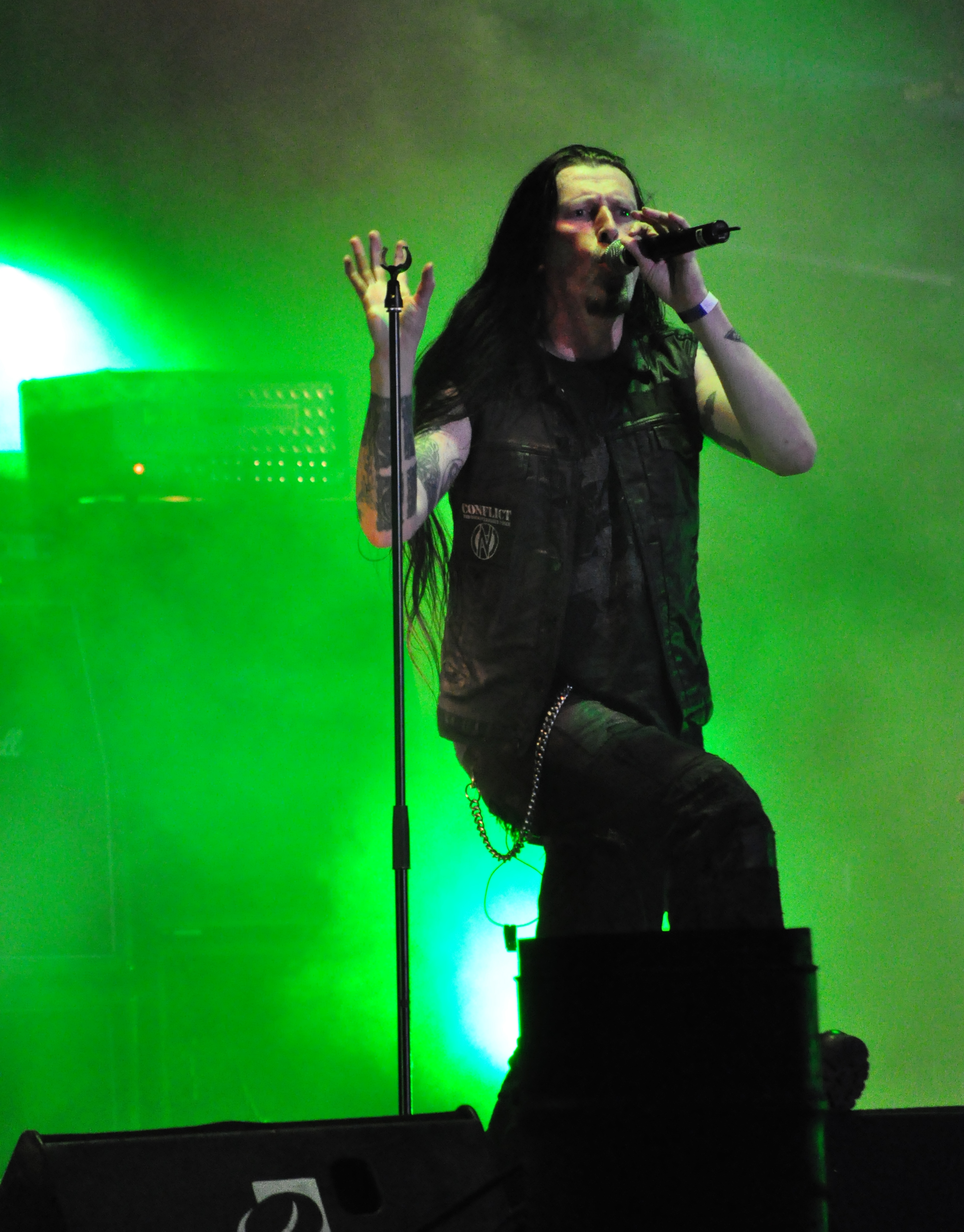 Vallenfyre at Party.San Open Air 2012 From Paradise Lost